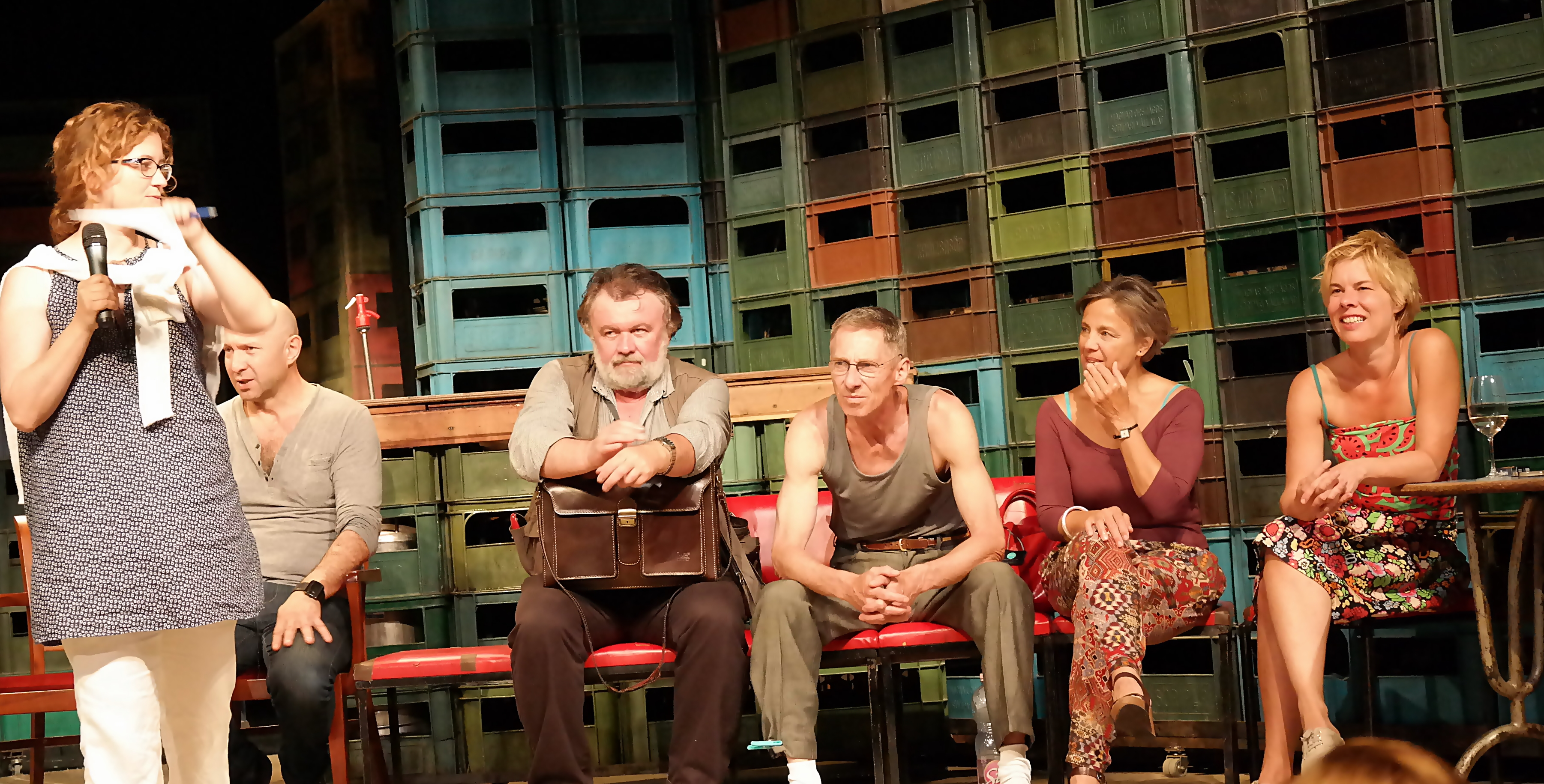 From left to right Alinda Veiszler, Ferenc Lengyel, Imre Csuja, János Bán, Ági Szirtes, Réka Pelsőczy